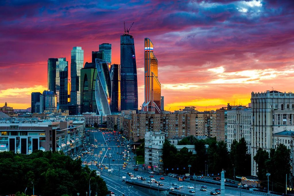 Moscow International Business Center